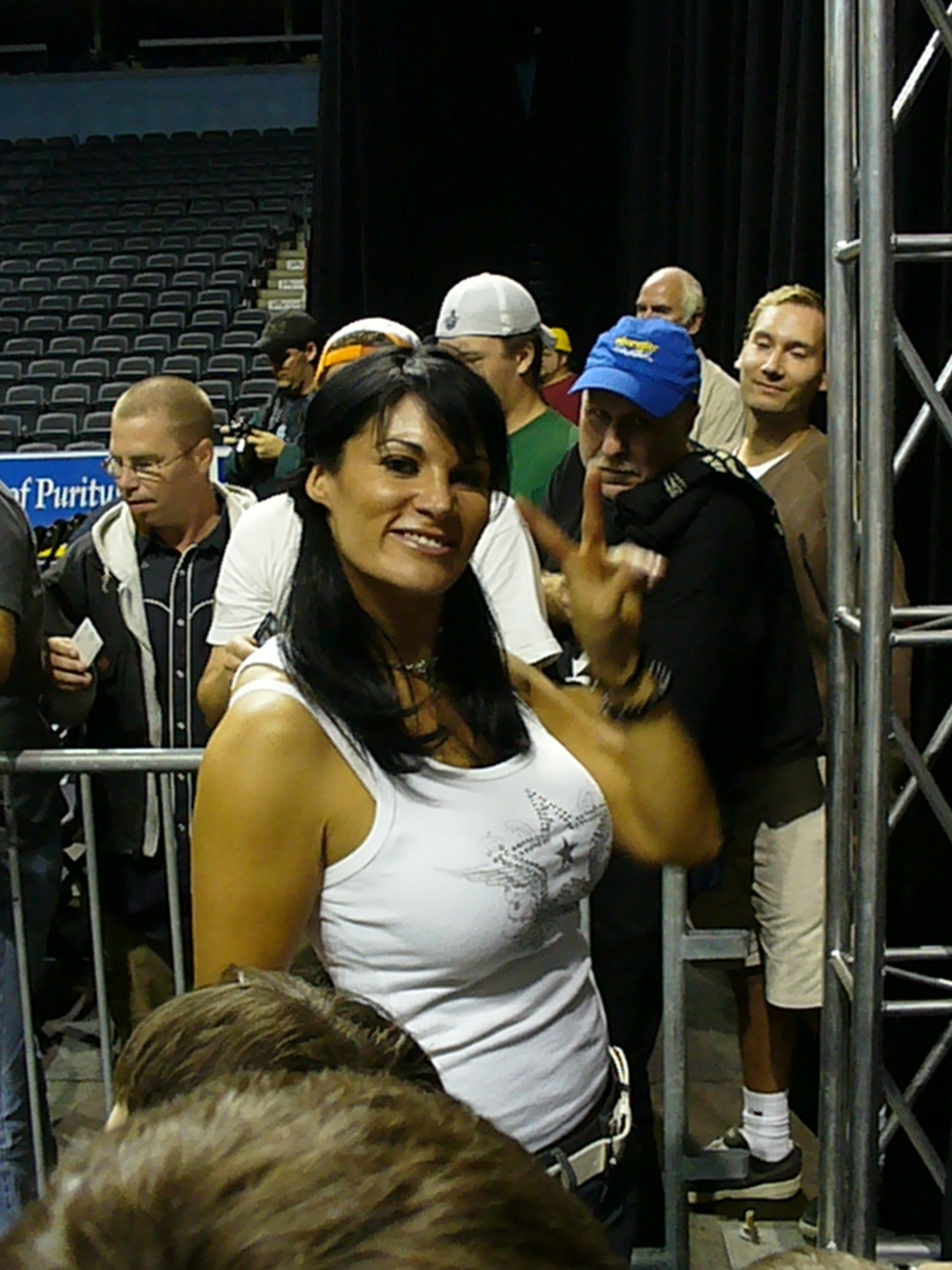 Traci Brooks signing autographs after house show in London, ON